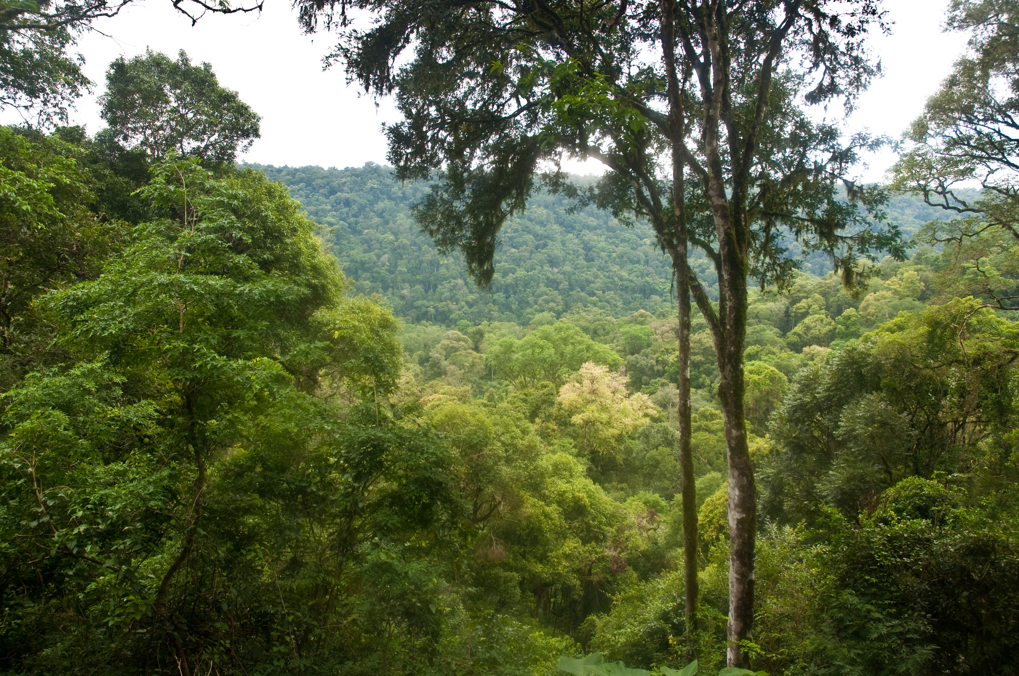 A walk in the selva, Yaboti, Misiones, argentina, 10th. Jan 2011